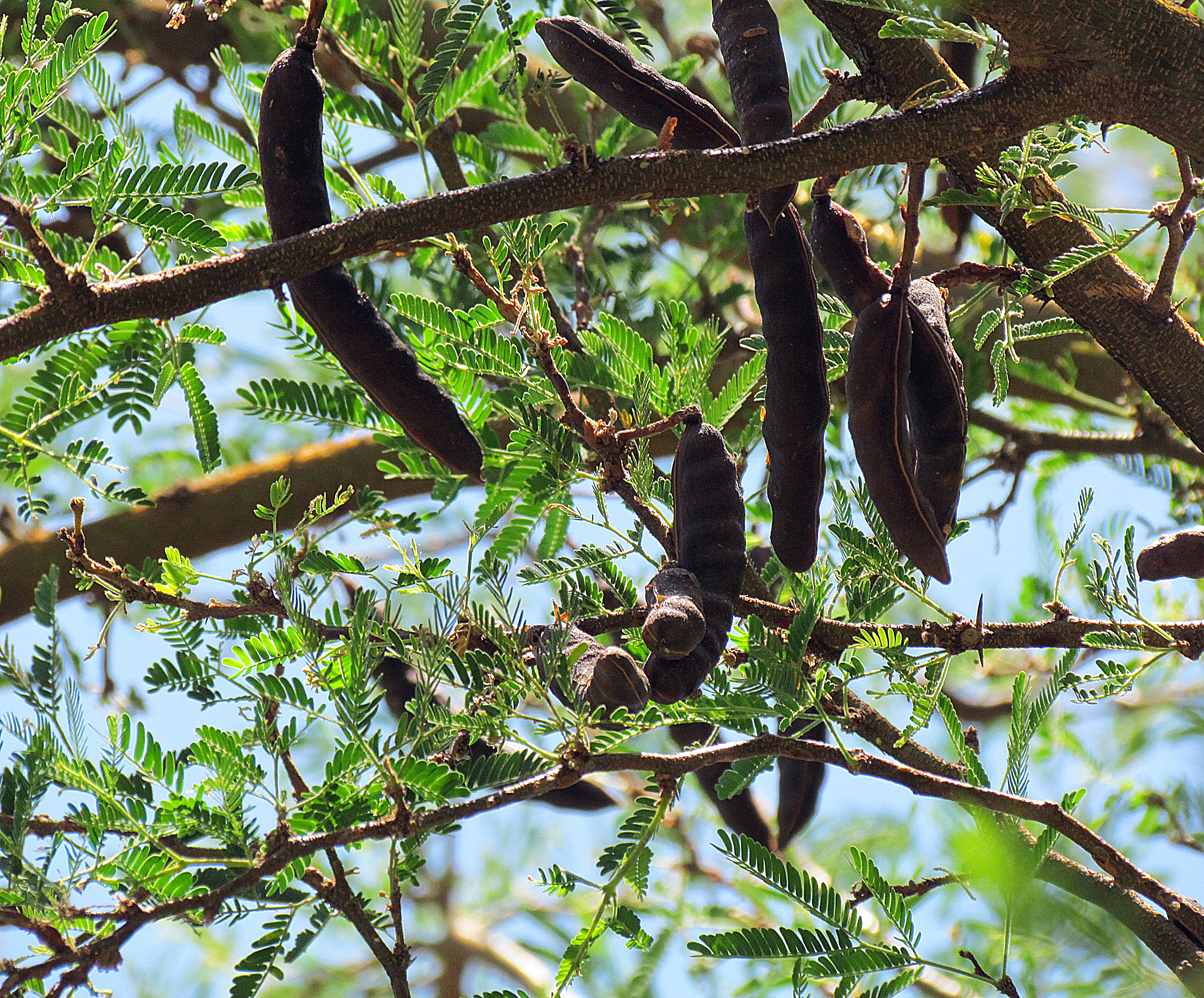 Vachellia farnesiana legume (Sharm el-Sheikh)